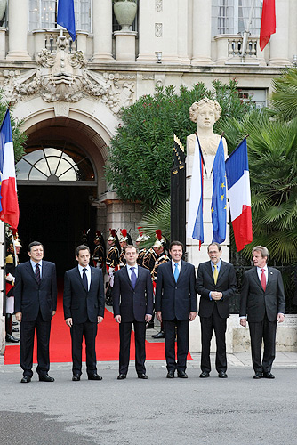 NICE, FRANCE. President of the European Commission José Manuel Barroso, President of France Nicolas Sarkozy, Dimitry Medvedev, Mayor of Nice Christian Estrosi, Secretary General of the European Council Javier Solana and French Foreign Minister Bernard Kouchner (from left to right) before the start of the 22nd Russia–EU summit.